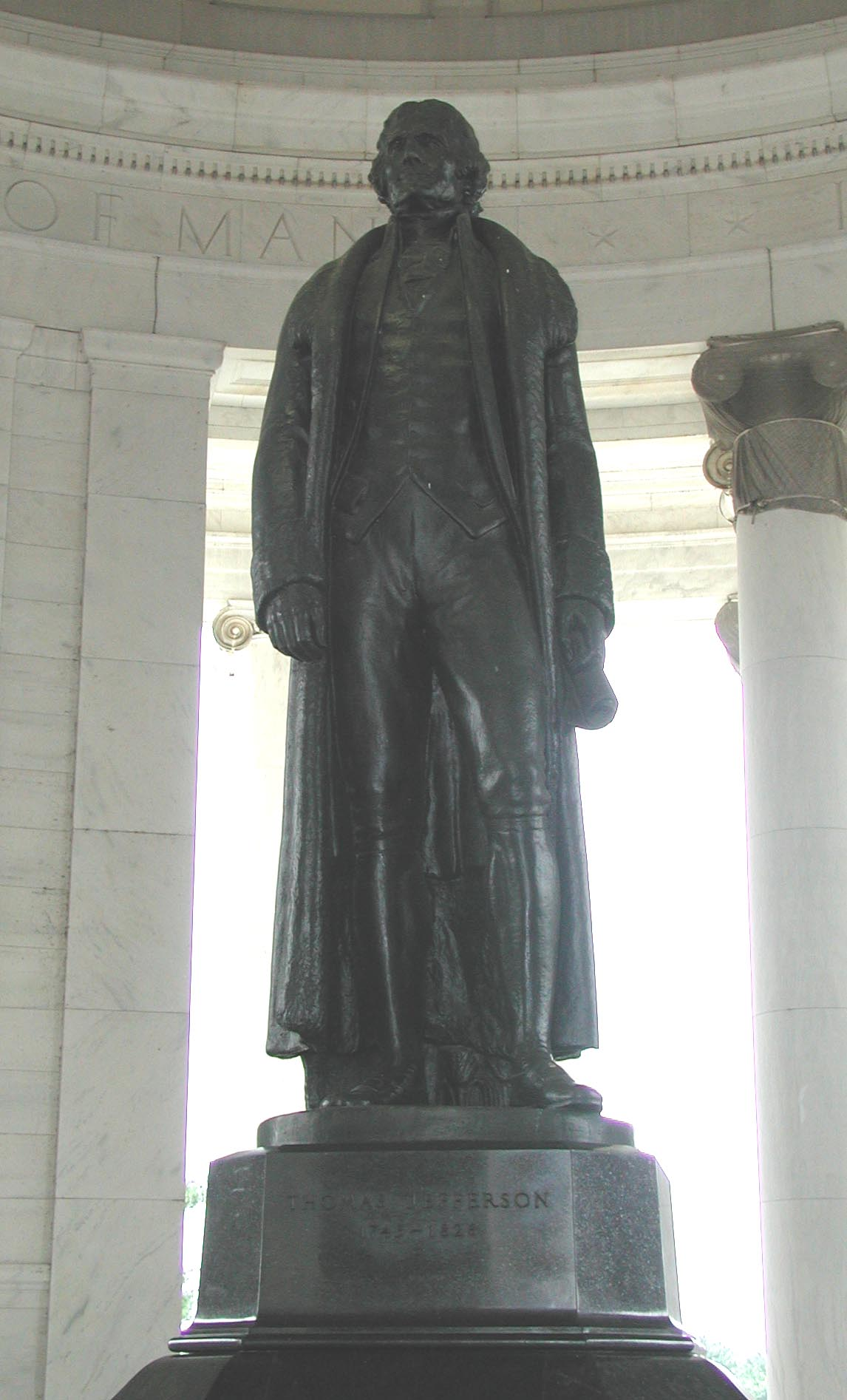 Statue of Thomas Jefferson in the Jefferson Memorial